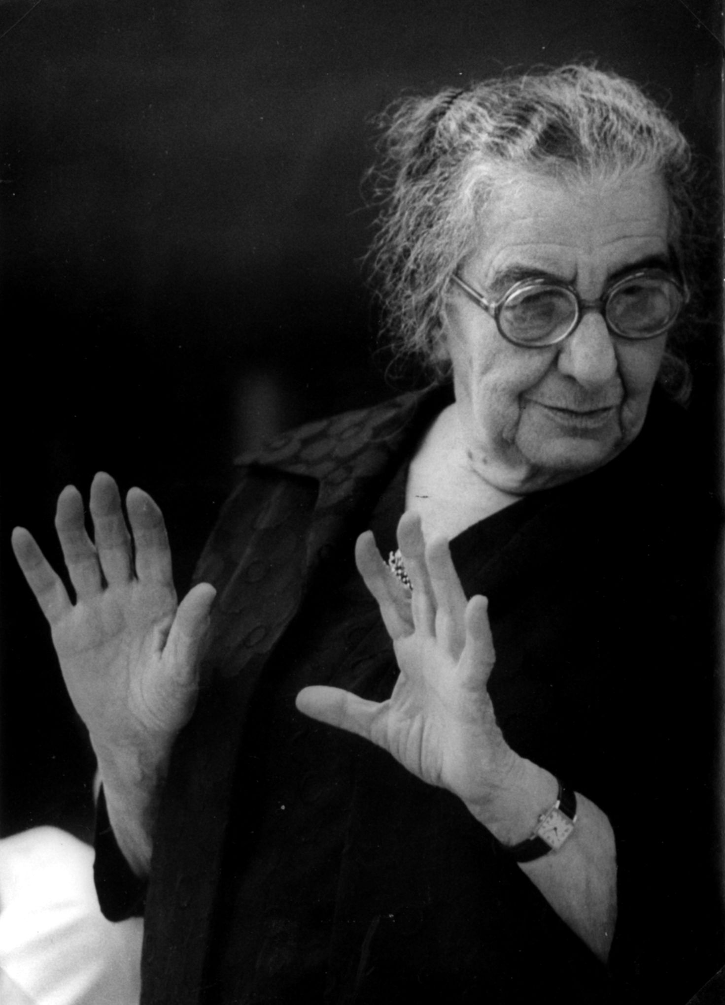 Golda Meir